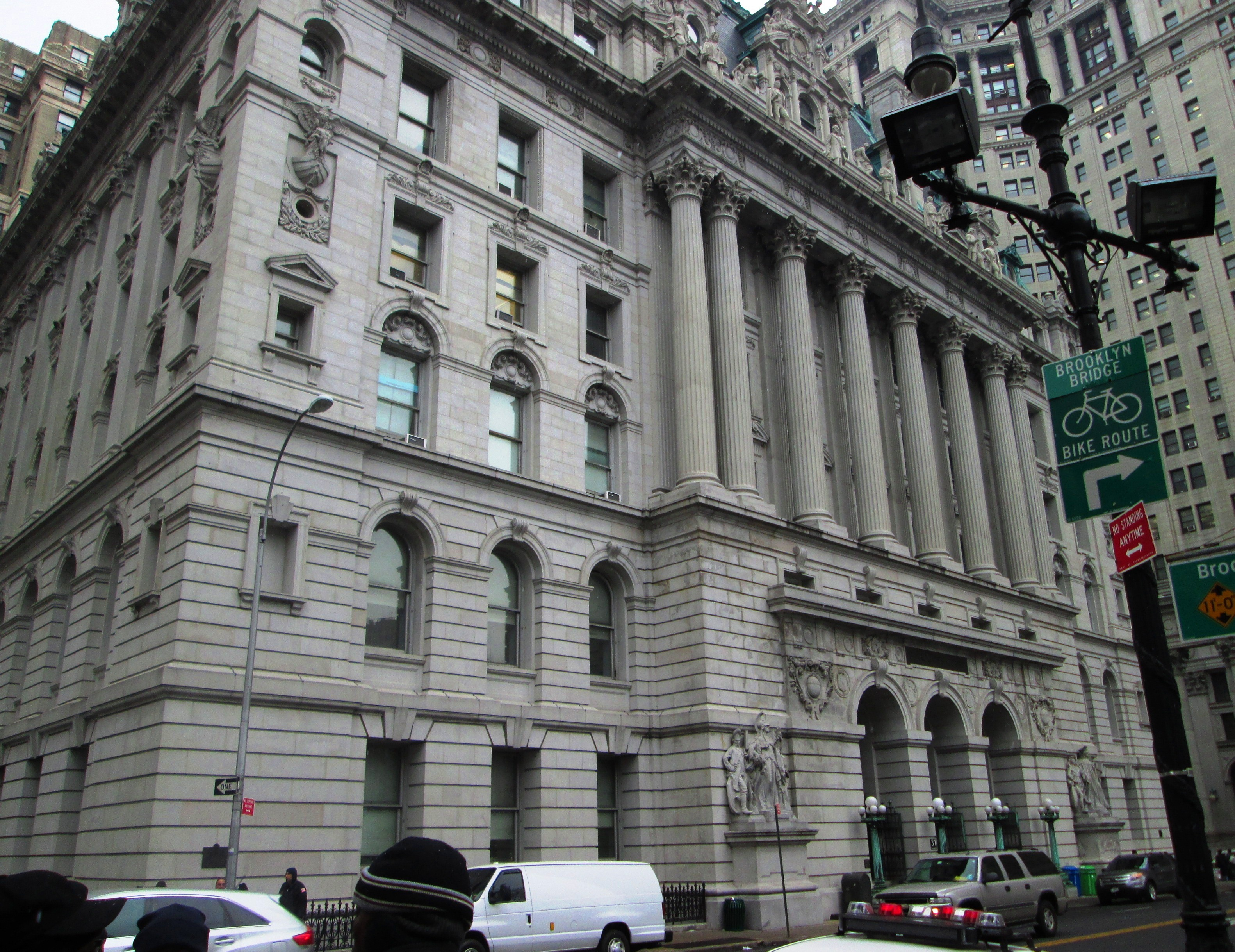 The Surrogate's Courthouse at 31 Chambers Street between Elk Street and Centre Street in the Civic Center district of Manhattan, New York City was built in 1899-1907 as the Hall of Records, and was designed by John R. Thomas in the Beaux-Arts style, and completed after his death by Horgan & Slattery. The exterior was designated a NYC landmark in 1966, and the interior in 1976. (Source: Guide to NYC Landmarks (4th ed.)) This image shows the courthose from the west on Chambers Street.